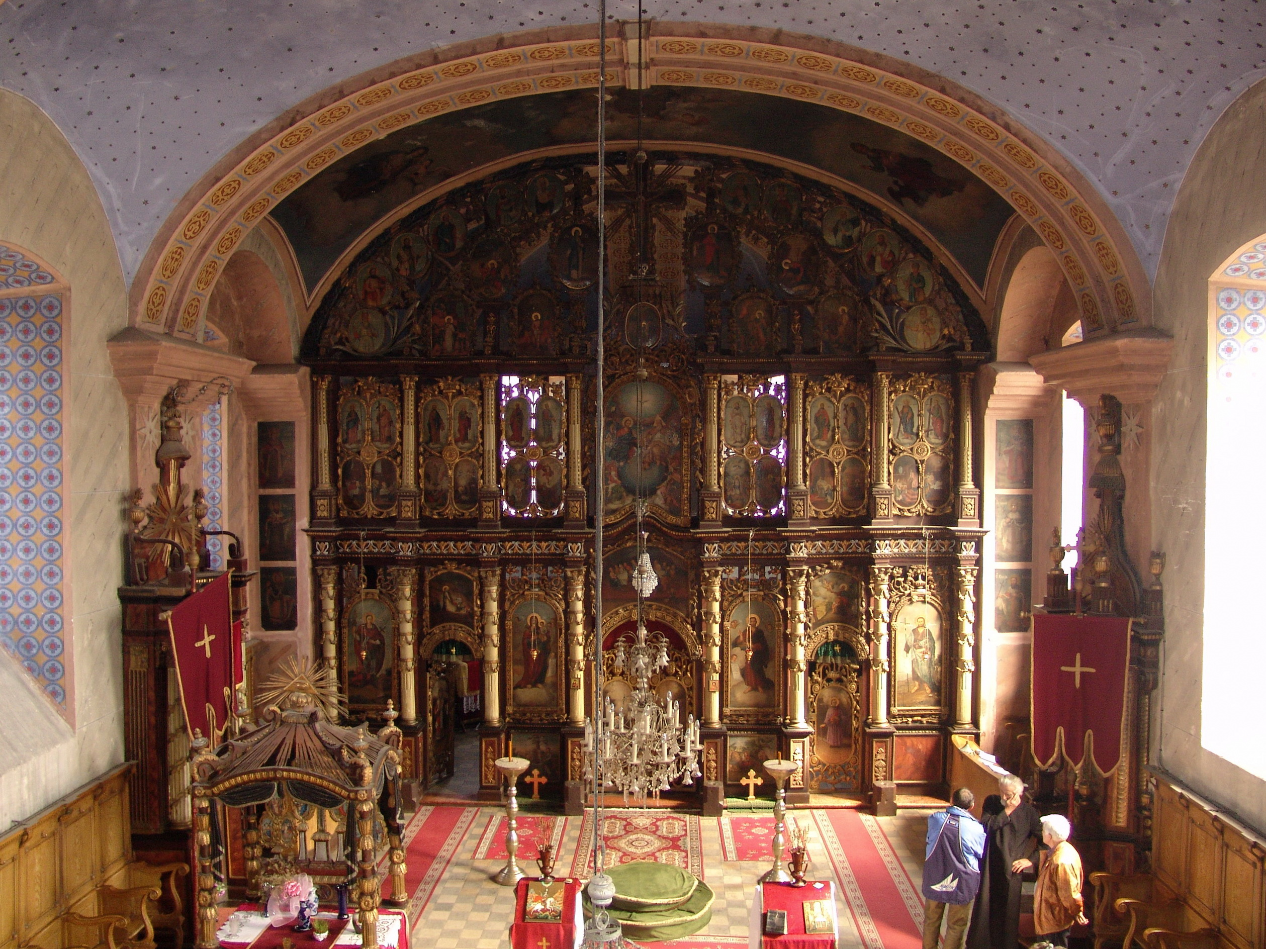 Serbian Orthodox church of Saint George in Čenta - iconostasis